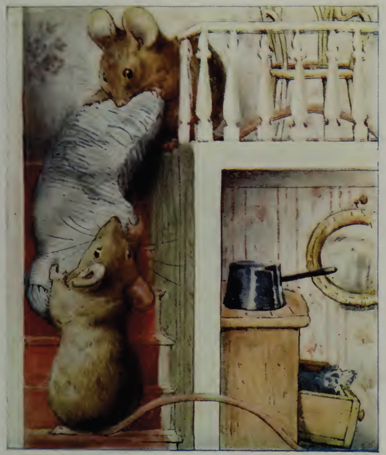 Hunca Munca and Tom Thumbs carry the bolster down the dollhouse stairs, from The Tale of Two Bad Mice